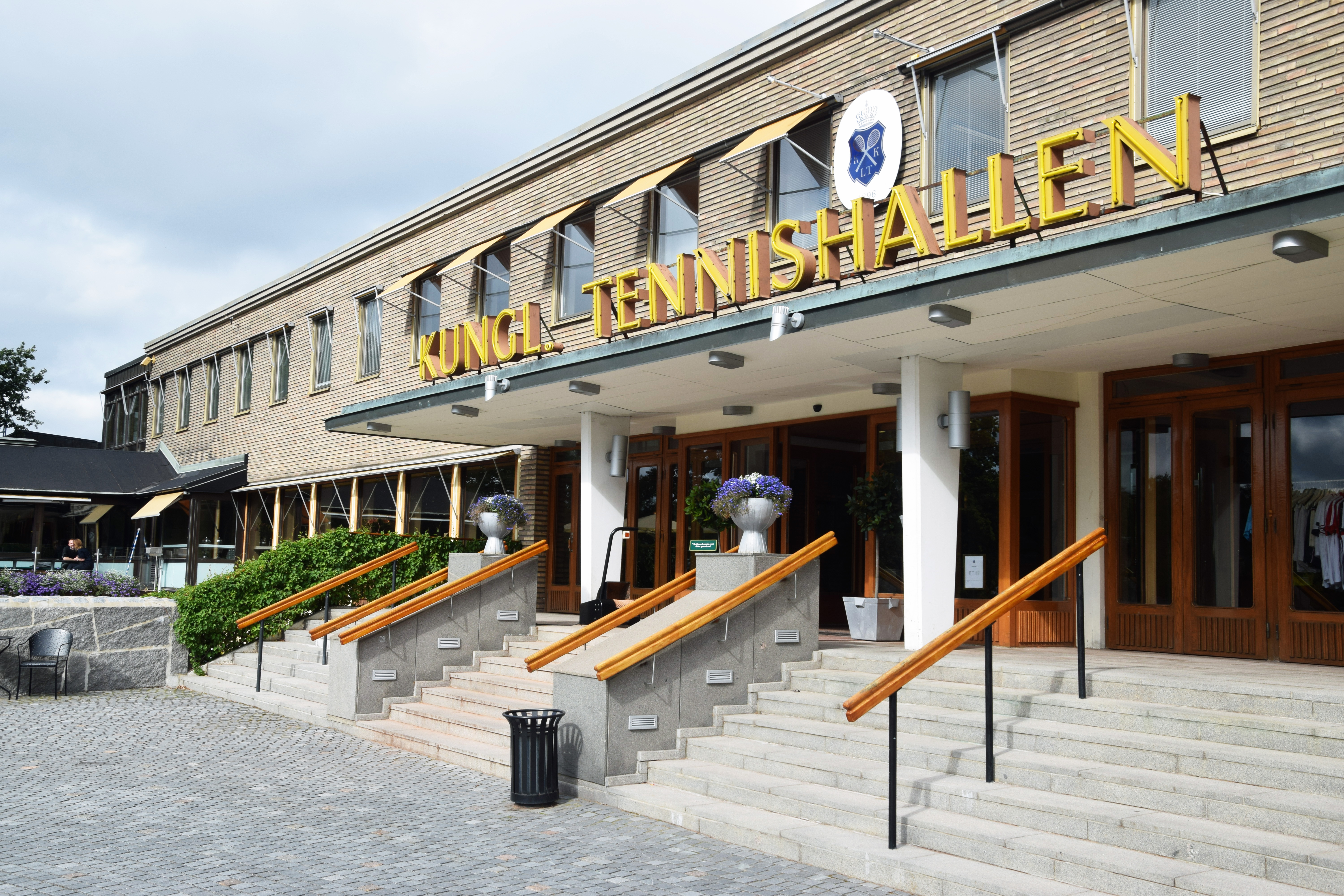 Nya solskydd